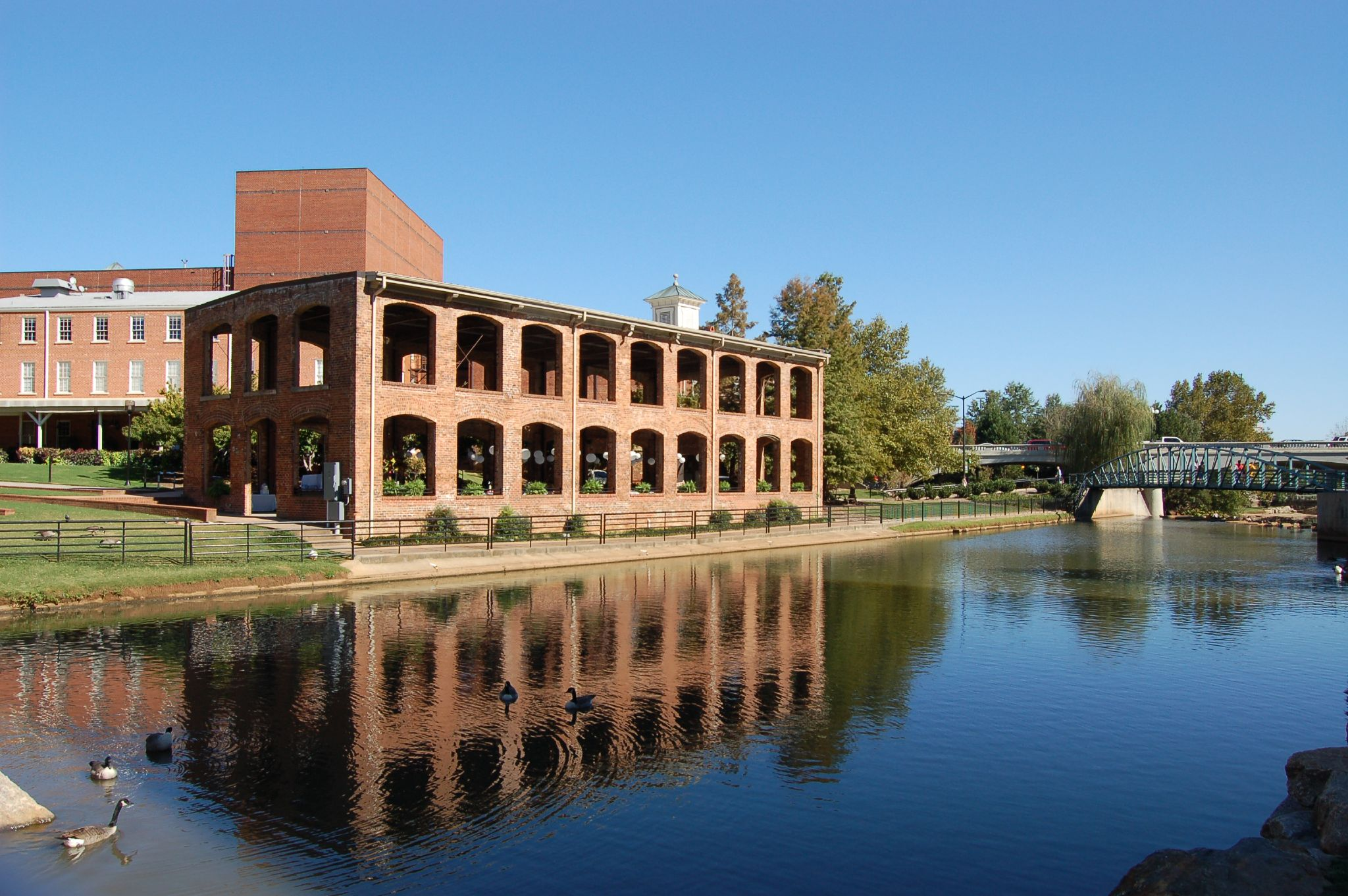 Markley Carriage Factory Paint Shop, now known as Wyche Pavilion